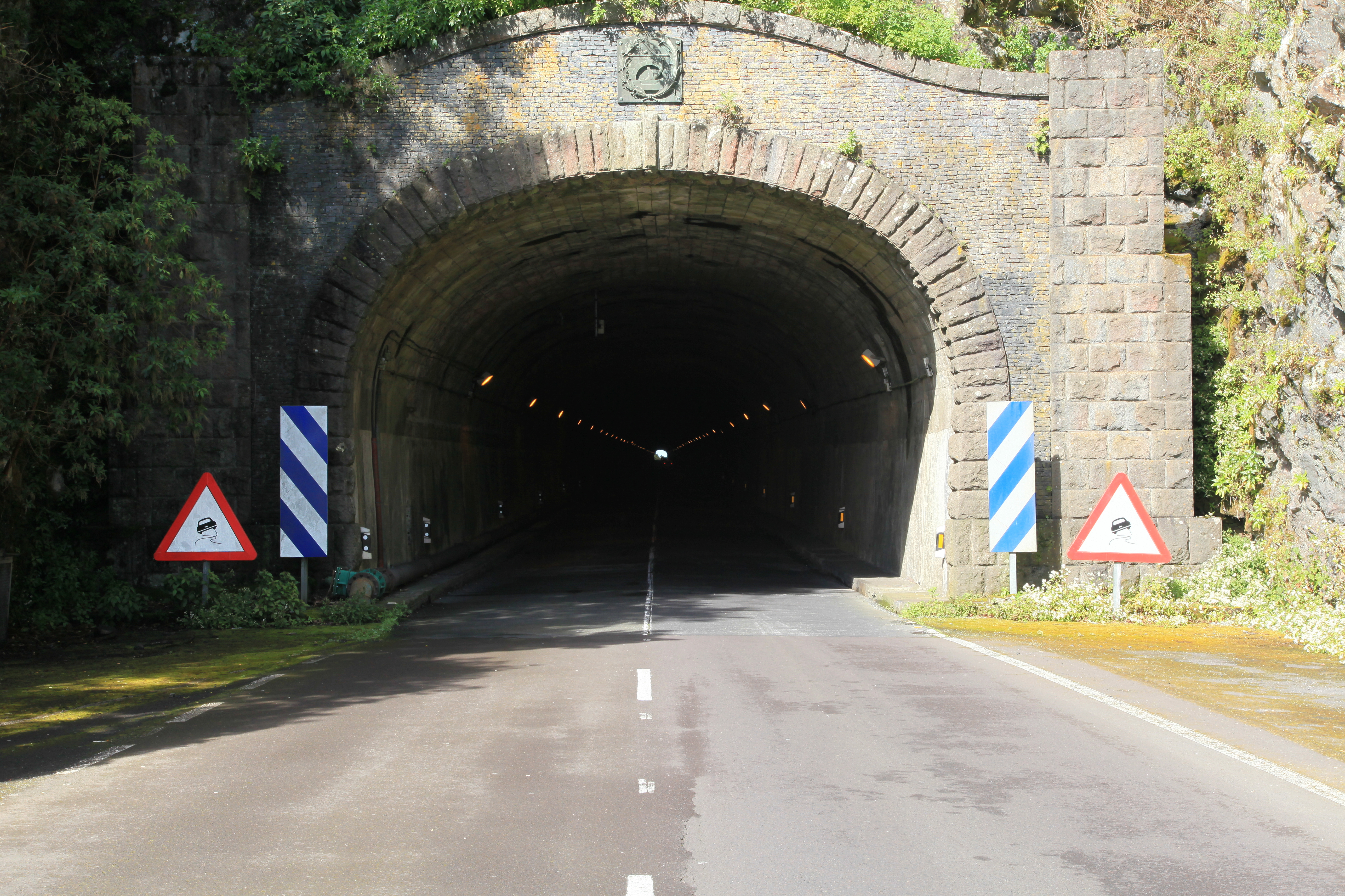 Túnel de La Cumbre, Carretera de La Cumbre (LP-3) in Breña Alta, La Palma, Canary Island, Spain